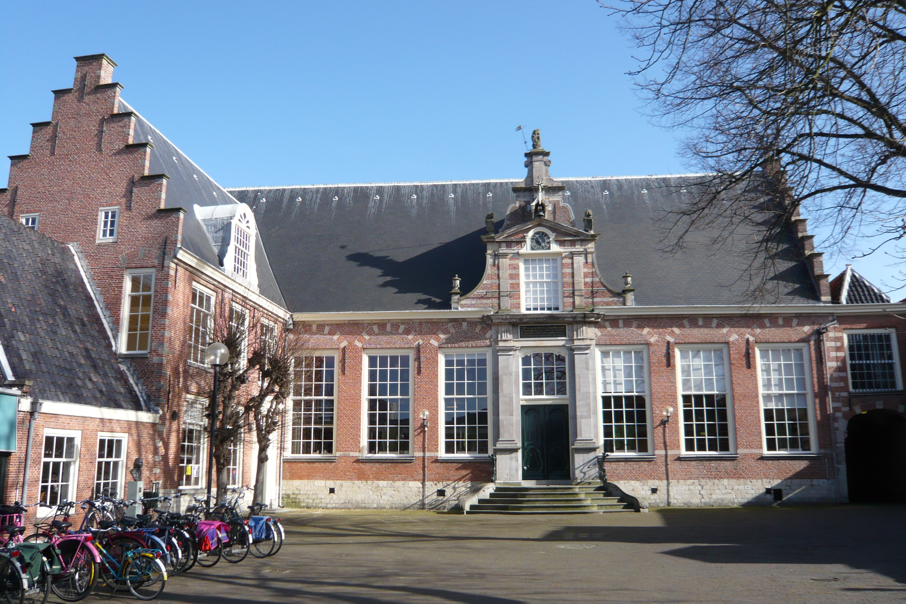 The national momument 'Kloveniersdoelen' in Haarlem, where currently the Haarlem Public Library is located.